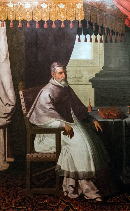 Urban II (c. 1035 - 1099)